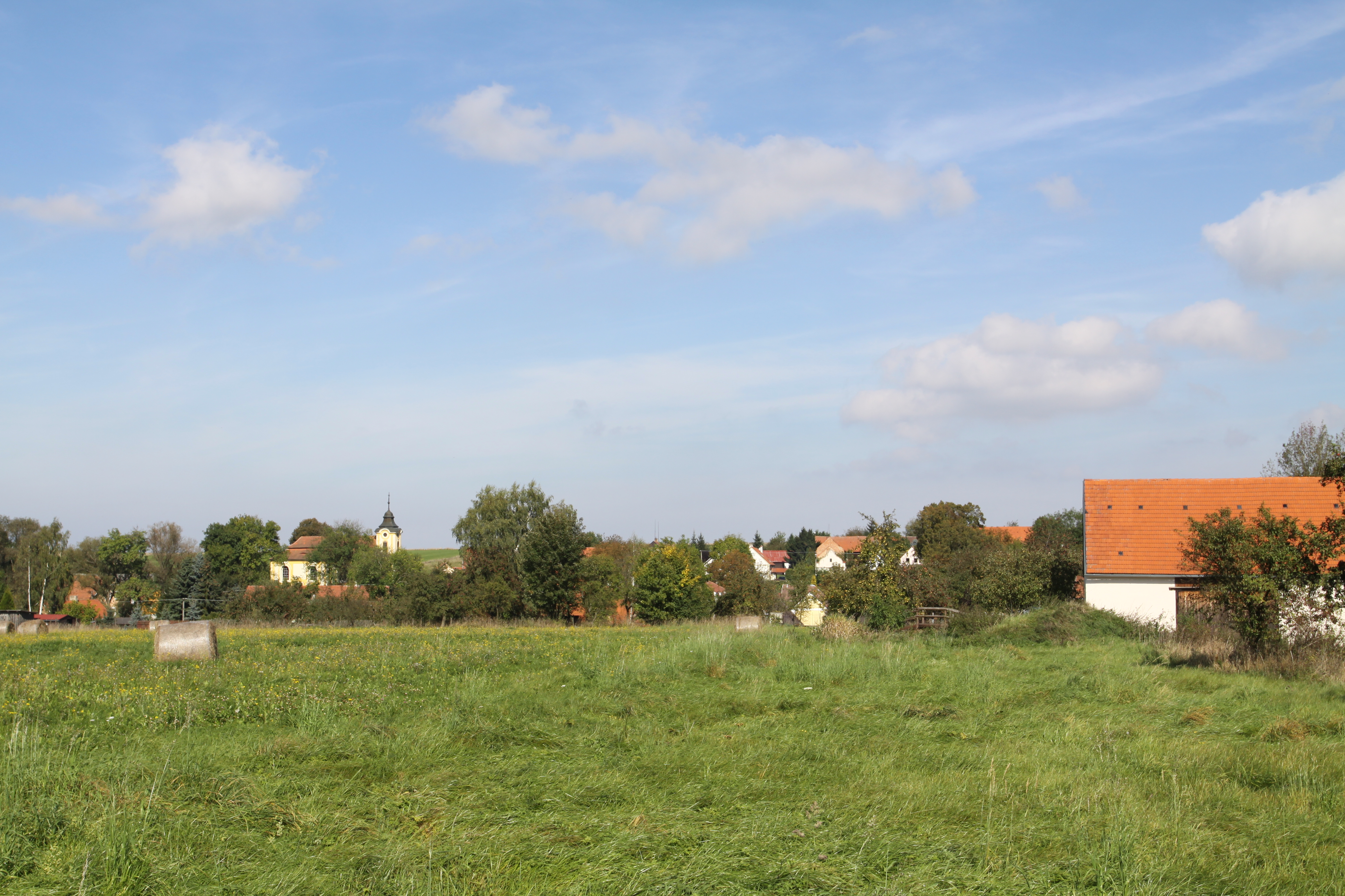 Podbořánky village in Rakovník District, Czech Republic